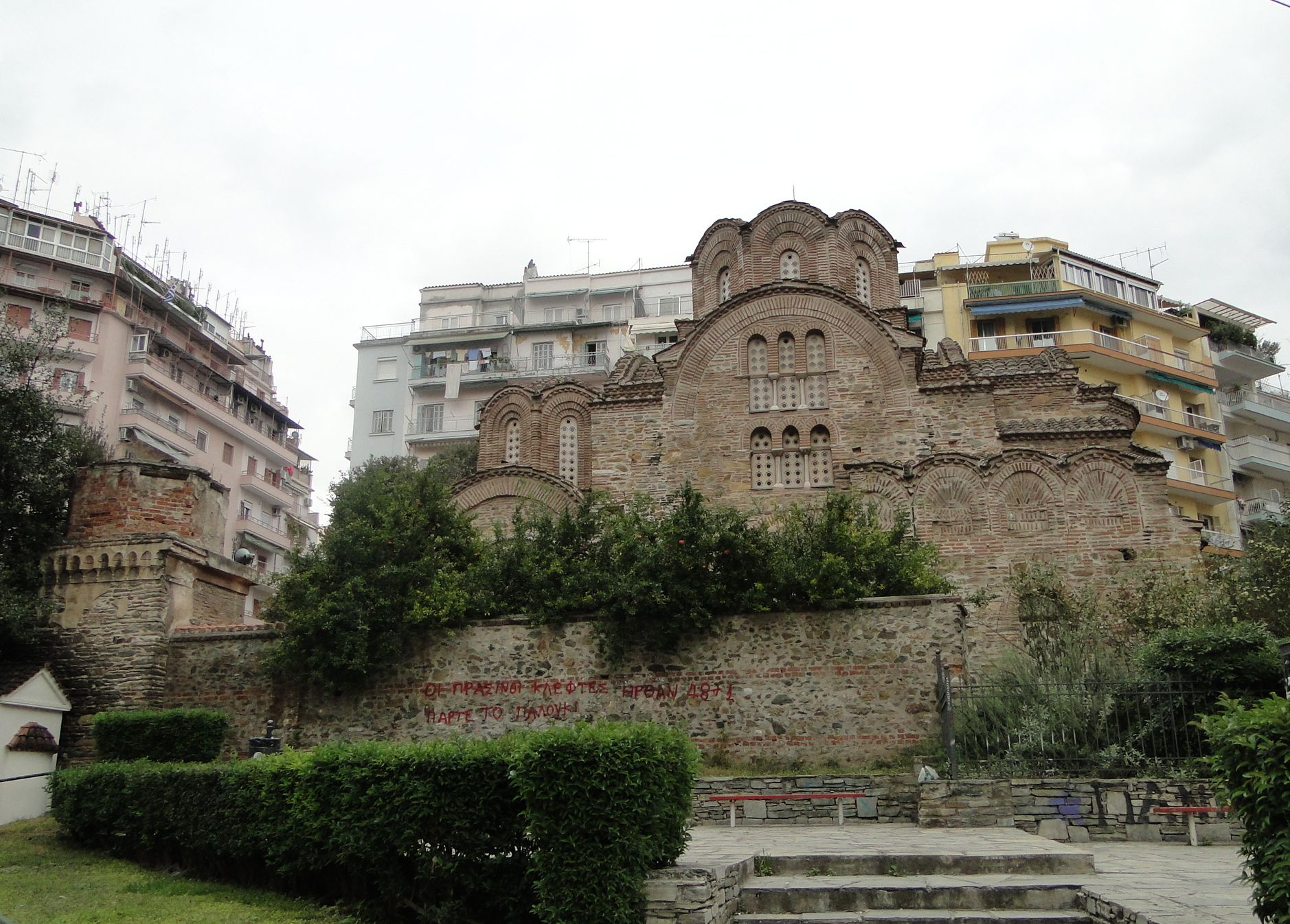 Τhe Church of Saint Panteleimon in Thessaloniki, 2010.